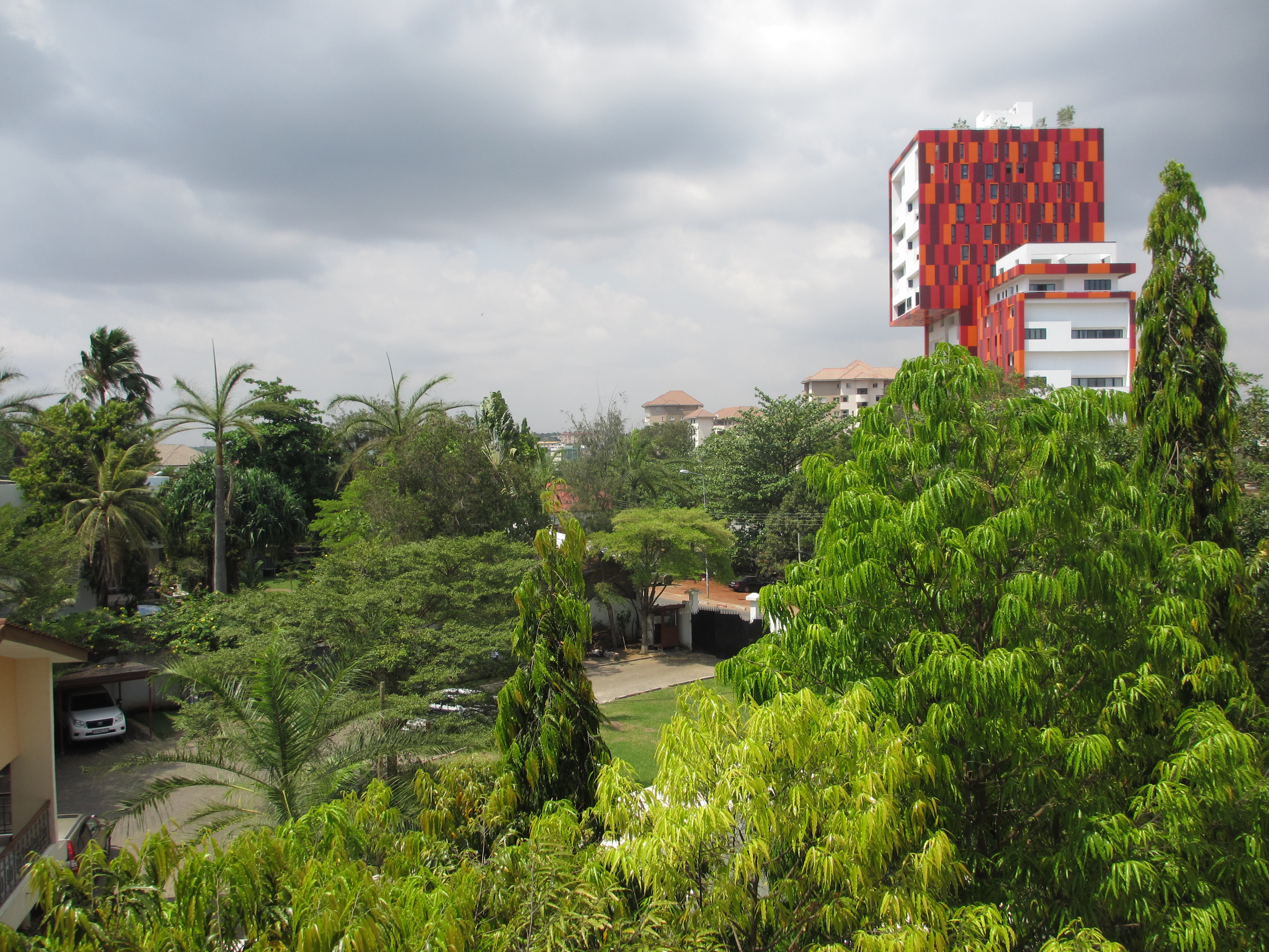 View of neighbourhood outside the Hotel Regent, Accra in the Greater Accra Region.